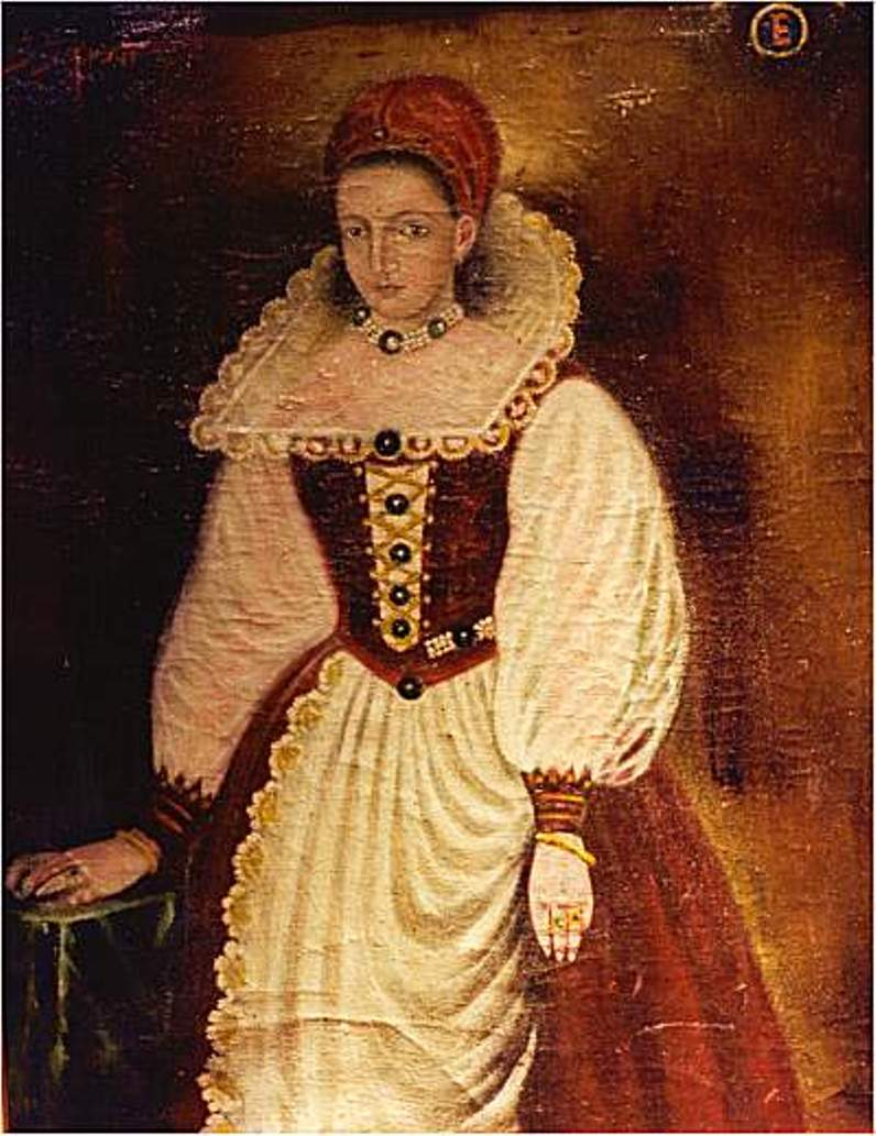 The original portrait of the Countess Elizabeth Bathory from 1585 is lost (spirited away in the 1990s). However, this is a fairly contemporary copy of that original, probably painted in the late 16th century. She was 25 when the original portrait -- the only known image of her -- was painted.